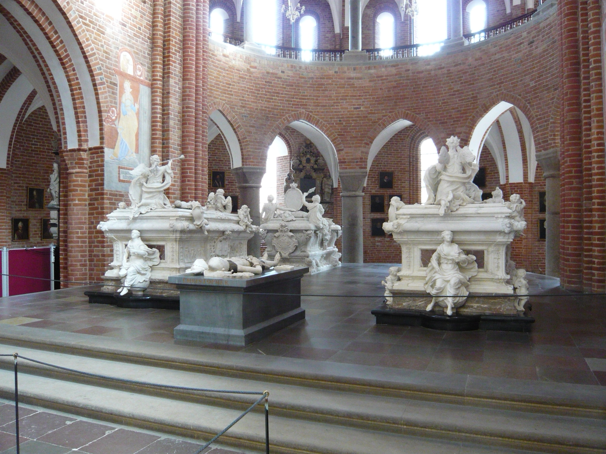 The retro-choir of Roskilde Cathedral. On the pillar to the left is the pillar tomb of "Estrid (until recently thought to be that of Estrid Svendsdatter (990/997-1057/1073), but recent DNA analysis have shown that the remains belong to a much younger woman). In the foreground stands (from the left) the sarcophagus of Louise of Mecklenburg-Güstrow (1667-1721, consort of Frederick IV), the sarcophagus of Christopher, Duke of Lolland (died 1363, brother of Margaret I), and the sarcophagus of Frederick IV of Denmark (1671-1730).